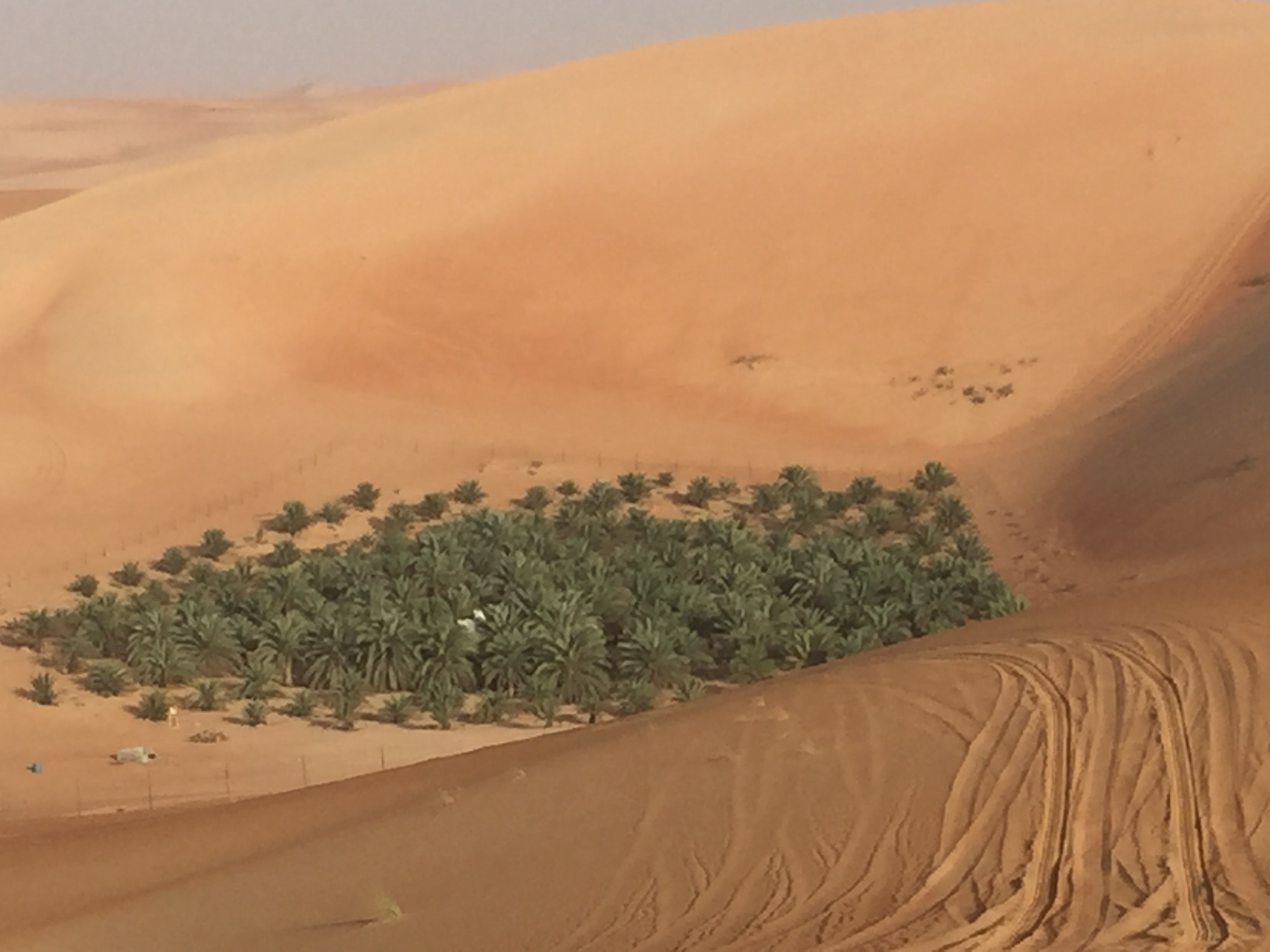 View of a palm grove in Abu Dhabi desert